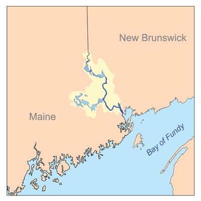 This is a map of the St. Croix river watershed. I, Karl Musser, created it based on USGS data.